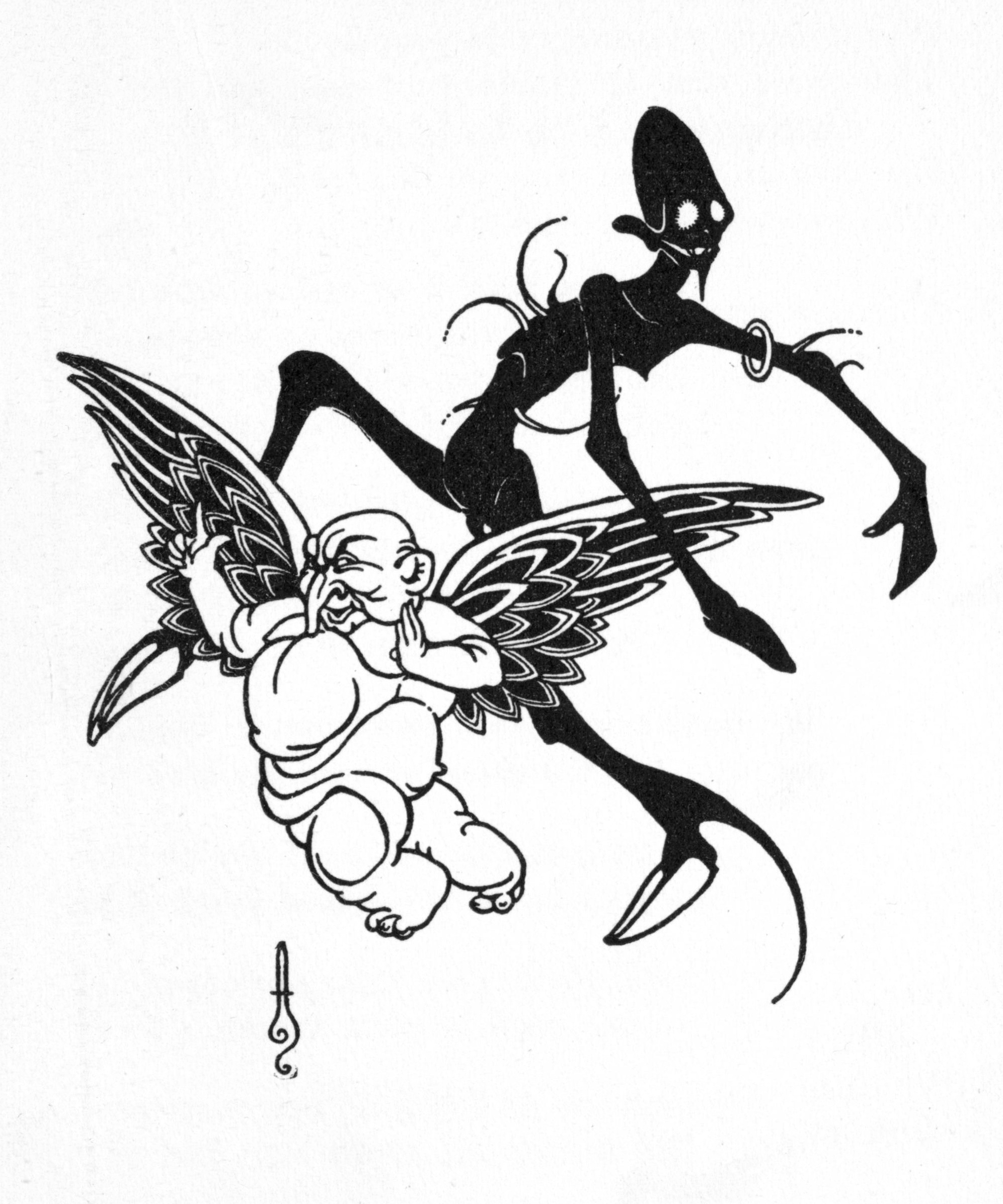 Illustration by Boris Artzybasheff